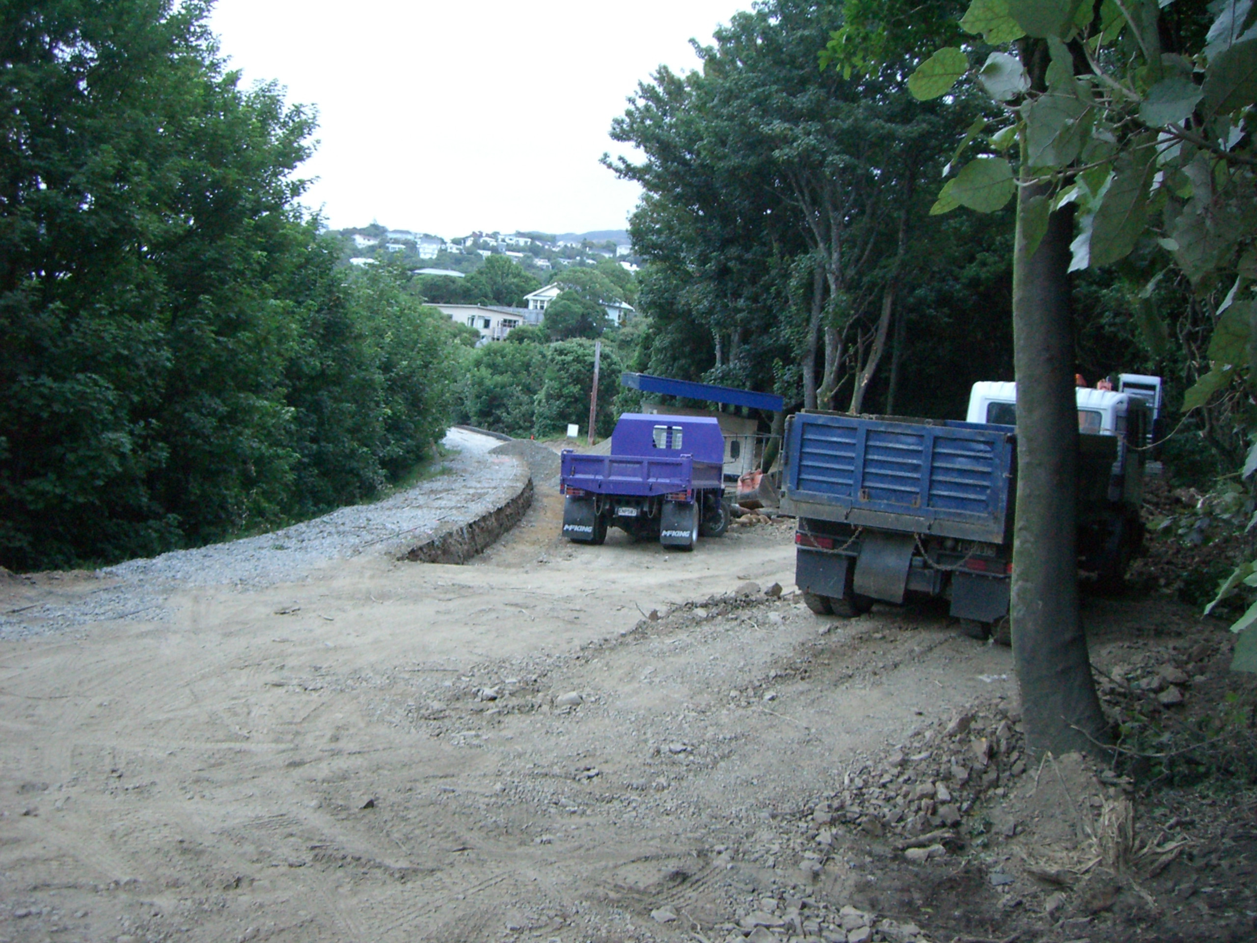 Awarua Street Station, on the Johnsonville suburban train branch, receives a complete overhaul of the platform to accommodate longer six carriage trains, as opposed to the four carriage units used previously. This is photographed from the northern end of the station, facing south.